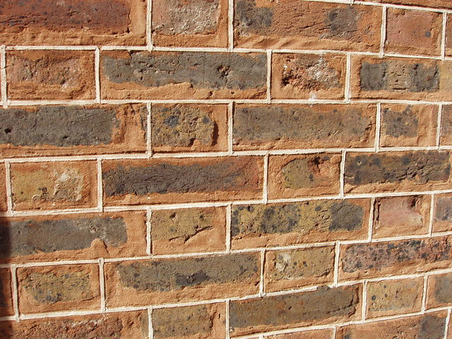 Tuck pointing on The Elms, 18th Century house in Acton This is the south wall of The Elms, which is the administrative building of Twyford Church of England High School. Tuck pointing is a decorative white ribbon applied over hand-made irregular bricks to give a neat and uniform appearance. Dr Gerard Lynch in a long description on the Brickmaster website tells us it is: "a highly skilled and refined method of pointing brickwork whereby the overall mortar joint is coloured to match the brick and grooved while still 'green' to receive a carefully placed lime-putty : silver sand joint, which is then carefully trimmed to form a precise ribbon-like profile. Its intention, in England, was to create an illusion of gauged ashlared brickwork on walling constructed of standard, often irregular, handmade bricks."